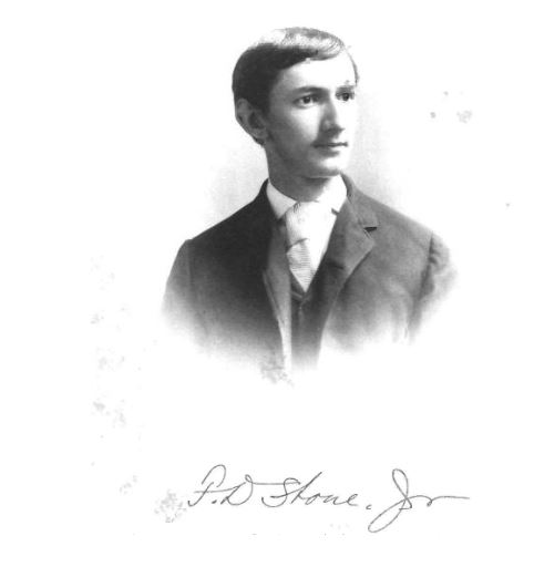 Frederick Dawson Stone, Jr. (1872-1896)